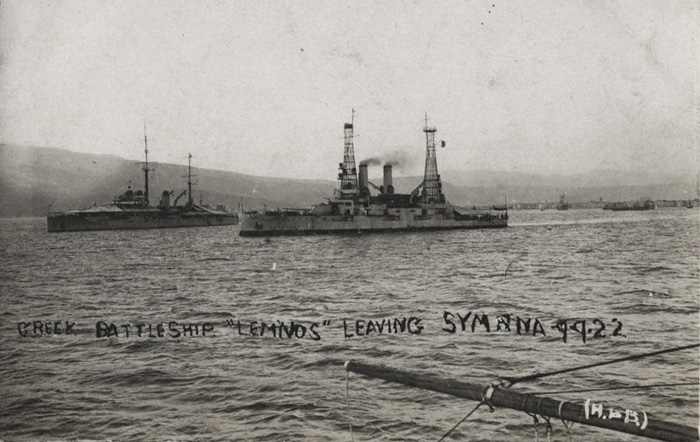 Greek battleship “Lemnos” (ex USS Idaho (BB-24)) leaves from Smyrna, 26 August/7 September 1922Türkçe: Yunan savaş gemisi “Lemnos” (eski USS Idaho (BB-24)) İzmir'den ayrılıyor, 26 Ağustos/7 Eylül 1922